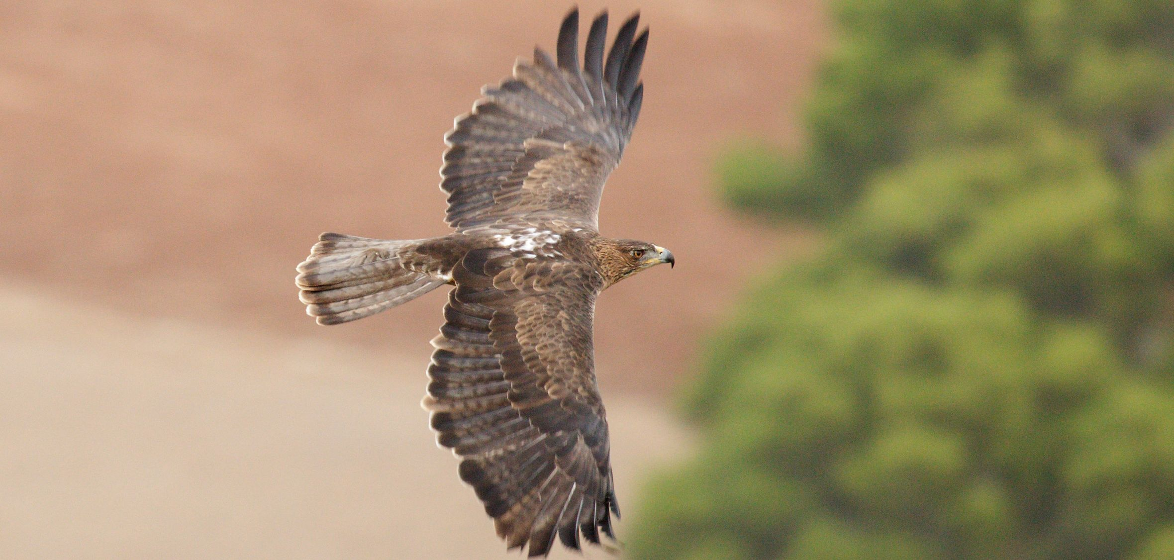 A Bonelli's Eagle in the Balearic Islands